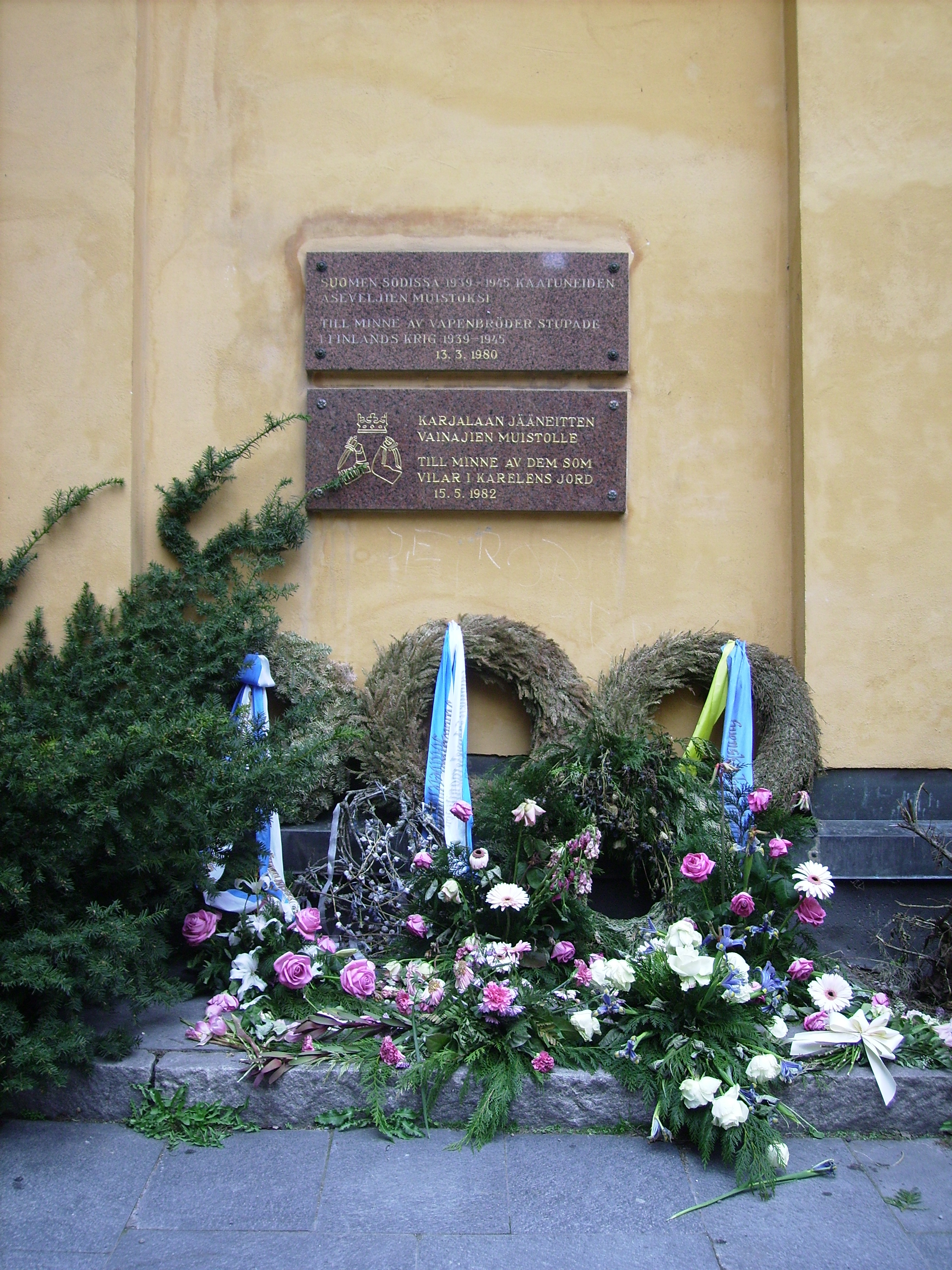 Picture of monument of Swedish volunteers in the Finnish wars 1939-1945 in Stockholm